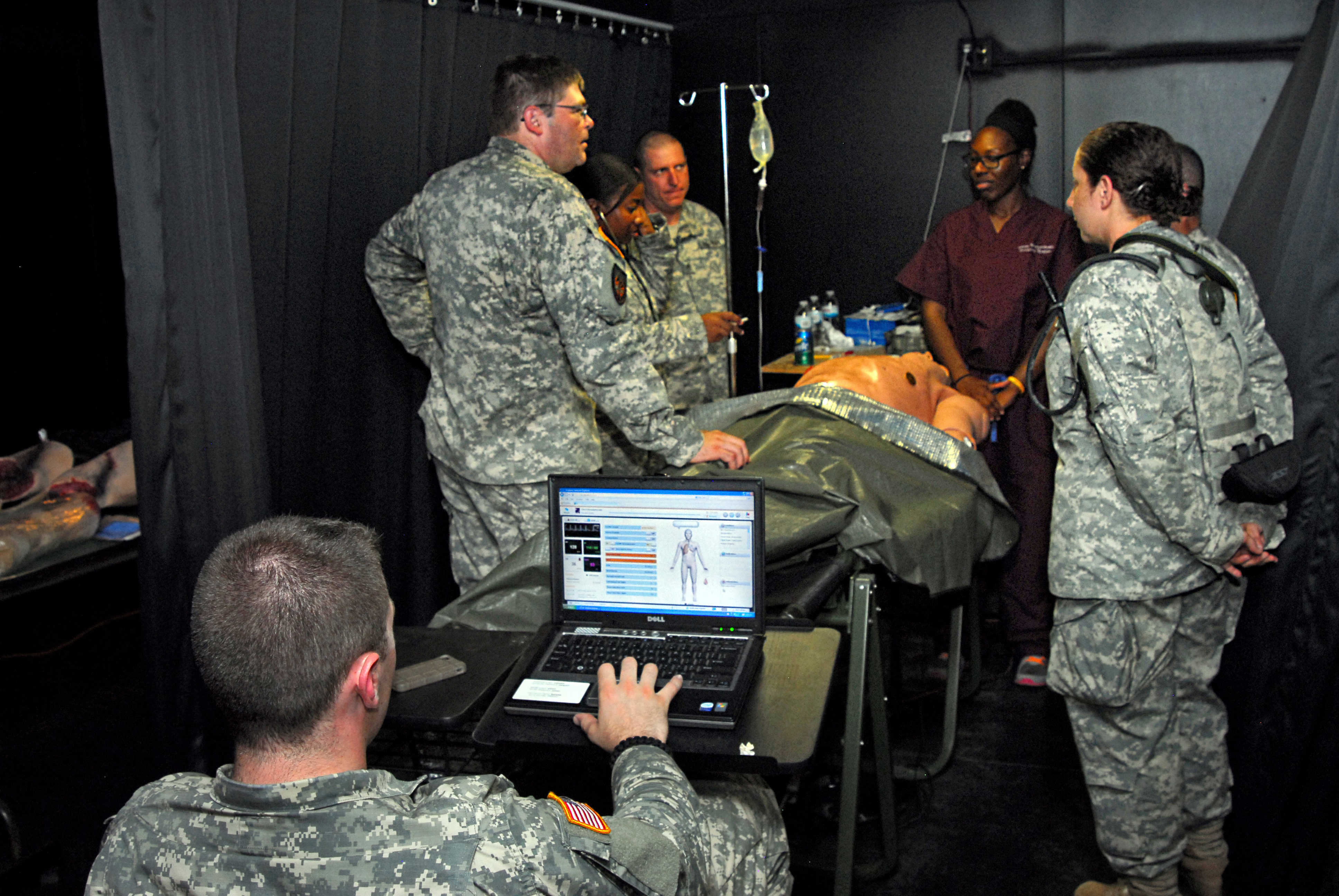 Soldiers assigned to Medical Command, New York Army National Guard, gather around Dr. Erica Igbindghene, an emergency room physician from Albany Medical Center, as she outlines the procedure for tracheal intubation, a medical term for insertion of a tube into an external or internal orifice of the body for the purpose of adding or removing fluids during training at Camp Smith Training Site, Cortlandt Manor, N.Y., on Aug. 5, 2014. Igbindghene was invited to attend a day of training with the New York Army National Guard medics during their annual training to help them improve this skill. As she runs through the procedure a MEDCOM Soldier uses a laptop computer to monitor the vital signs of the medical mannequin she is demonstrating with. (U.S. Army National Guard photo by Sgt. 1st Class Steven Petibone/Released)